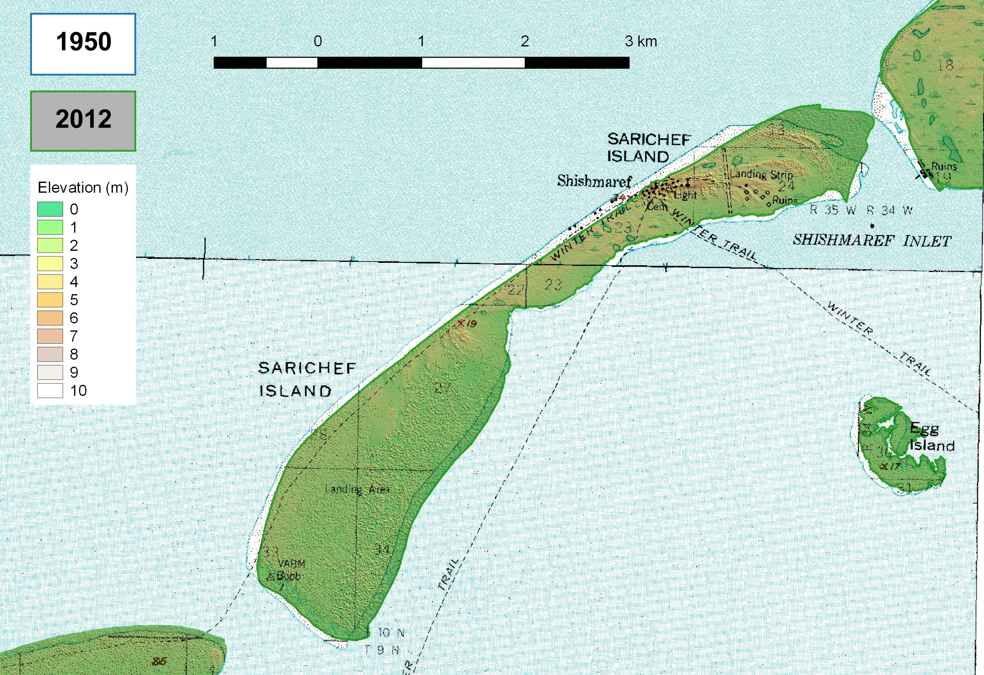 Erosion and sedimentation of Sarichef Island, Alaska between 1950 and 2012, elevation map